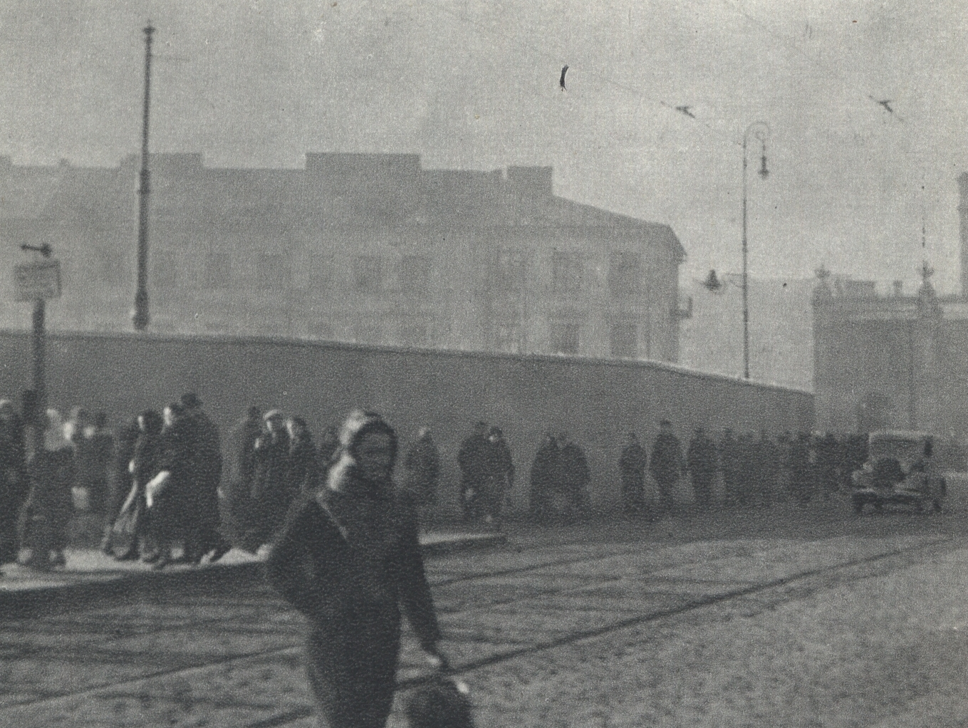 Warsaw Getto wall at the edge of Plac Żelaznej Bramy (autumn 1940).